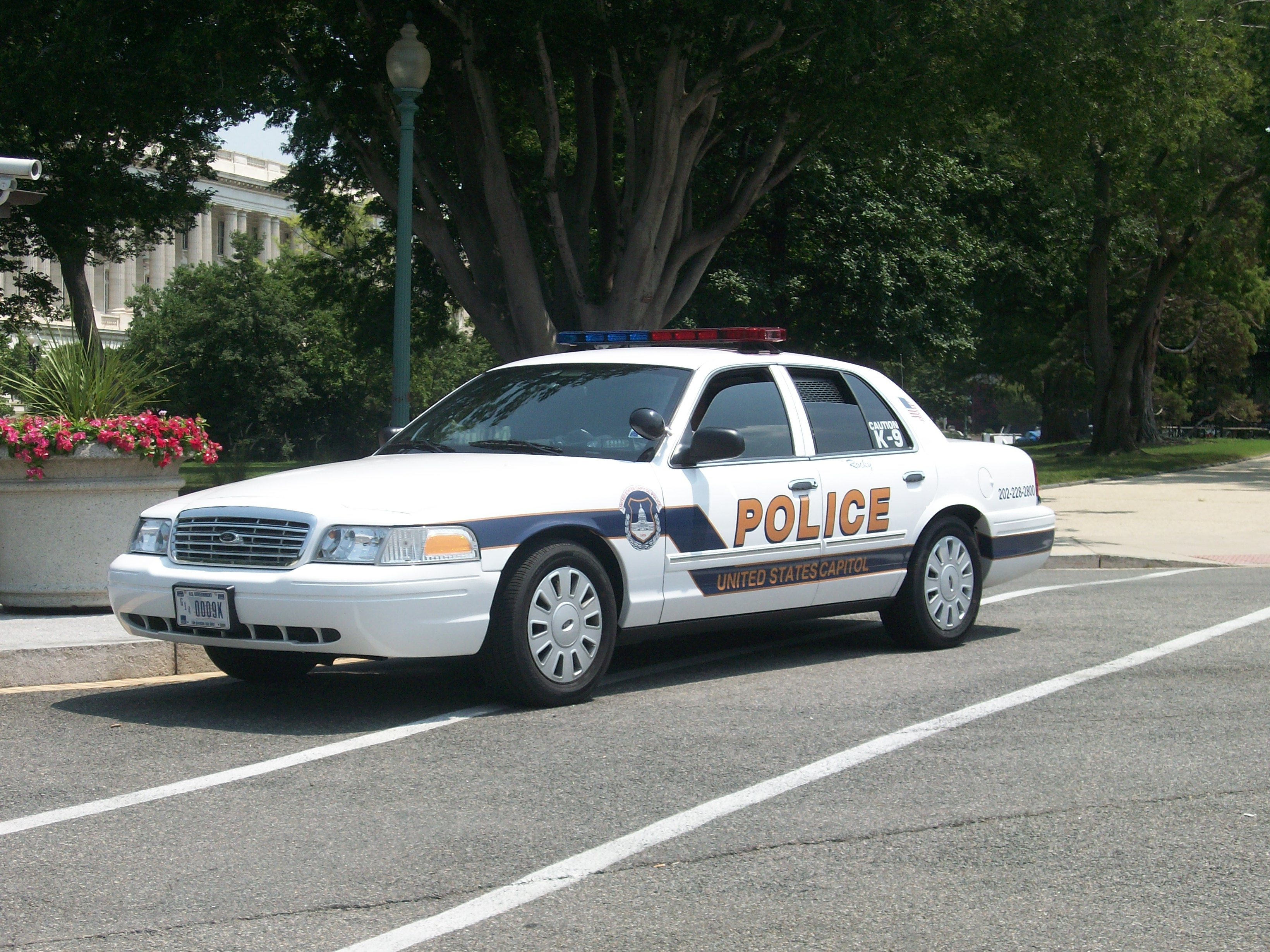 A car of the United states Capitol Police at Washington D.C